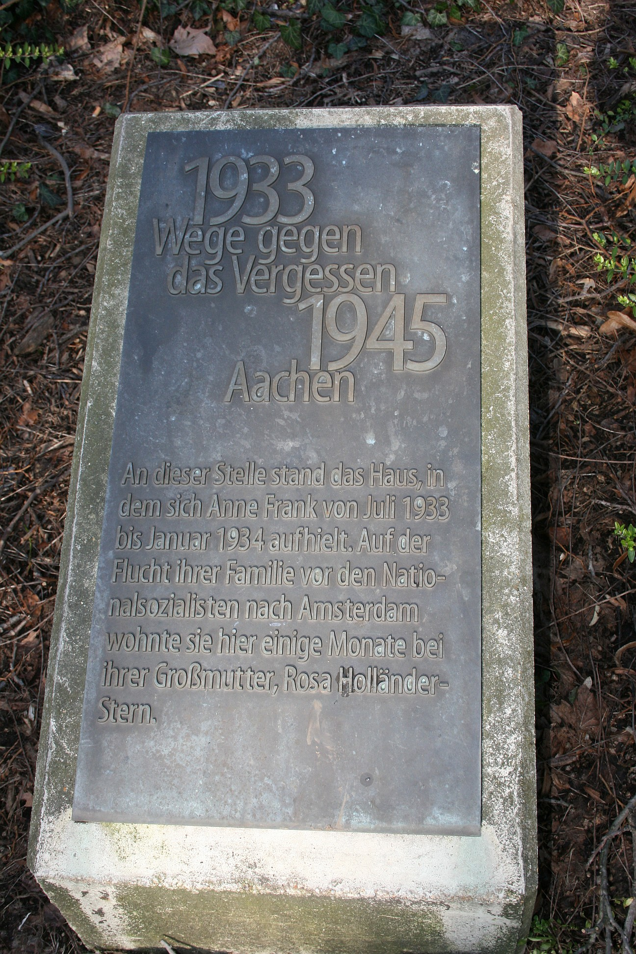 Memorial metal plate at the location of the former home of Anne Frank during her stay in Aachen. Gedenktafel im Rahmen "Wege gegen das Vergessen". Translation: 1933 Roads against forgetting 1945 Aachen. At this location stood the house, in which Anne Frank stayed from July 1933 until January 1934. Fleeing with her family for the National socialists (Nazi's) to Amsterdam she lived here a few months with her grandmother, Rosa Holländer-Stern.